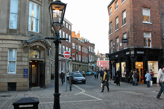 Blake Street, York This image is facing northwest and from the corner of St Helen's Square and Davygate.